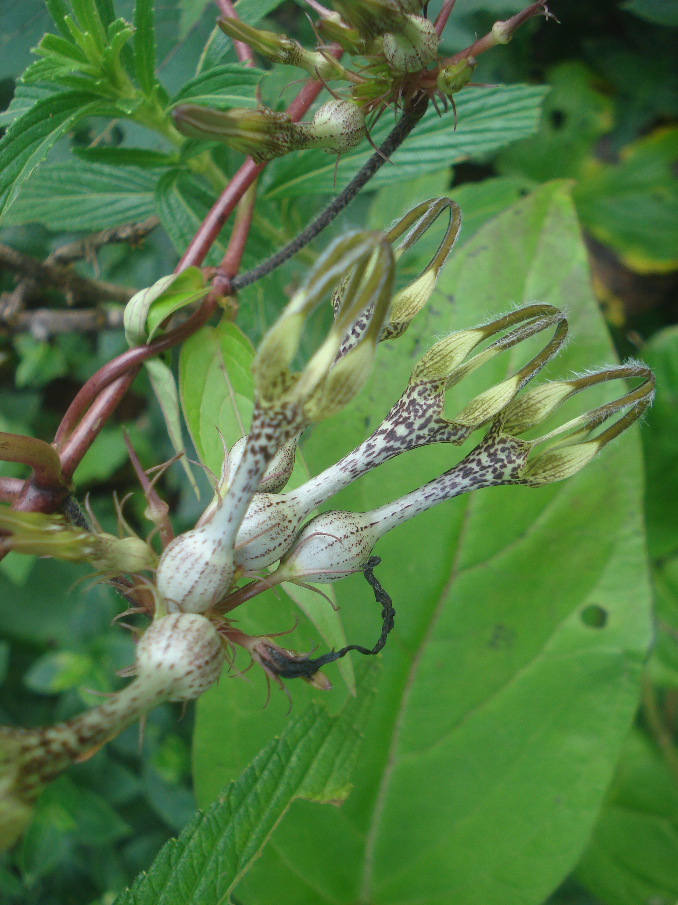 Photograph of the wild flower Ceropegia Vincaefolia (local name Kandilpushpa/ Kandil kharchudi- कंदिल खर्चुडी), pictured at Kaas plateau on 02nd October 2015.